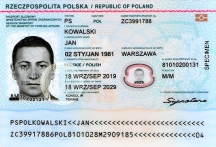 Data page of 2018 series Polish passport